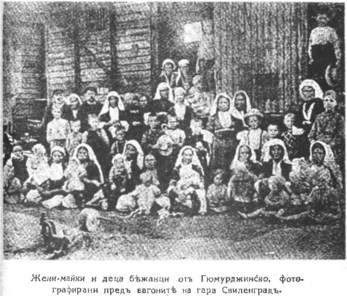 Thracian Bulgarian refugees from Komotini in Svilengrad.